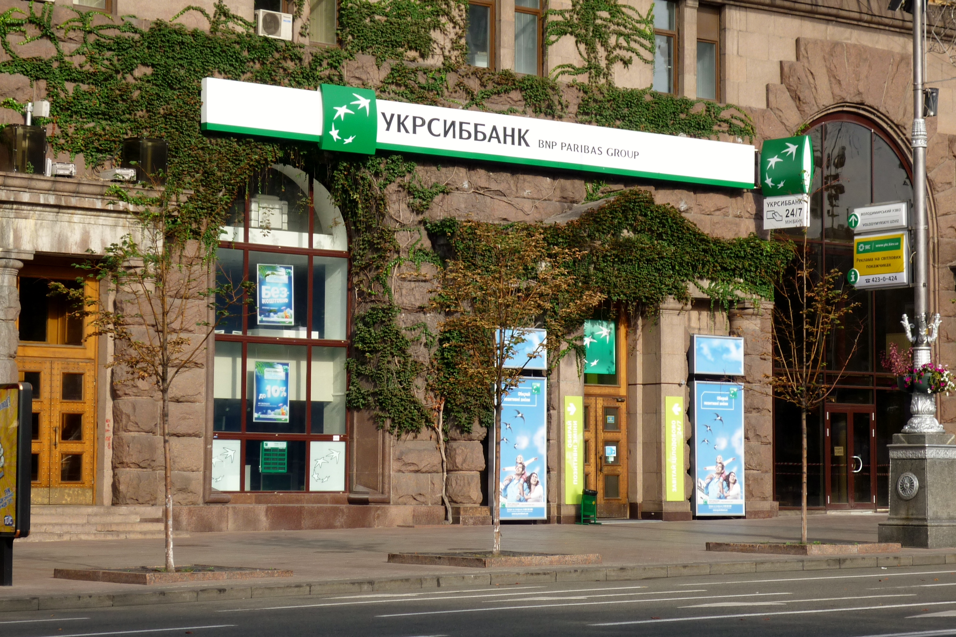 UkrSibbank - BNP Paribas - Agency, Khreshchatyk boulevard, Kiev, Ukraine